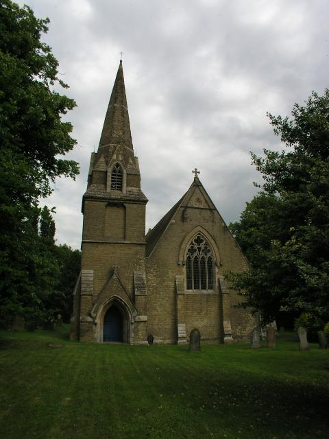 St Mark's parish church, Friday Bridge, Cambridgeshire, seen from the west